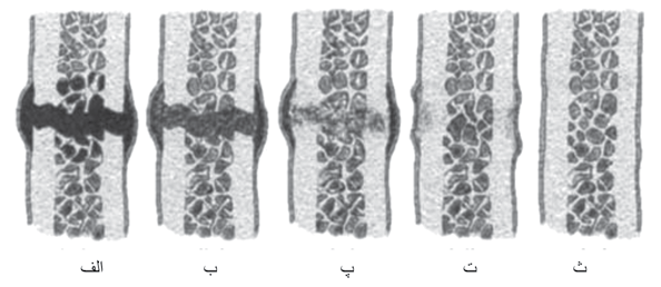 شکل 3 ) الف) ایجاد ترک ب) آزاد شدن عامل اصلاح شونده پ و ت) روند بهبودی ث) نمونه اصلاحشده